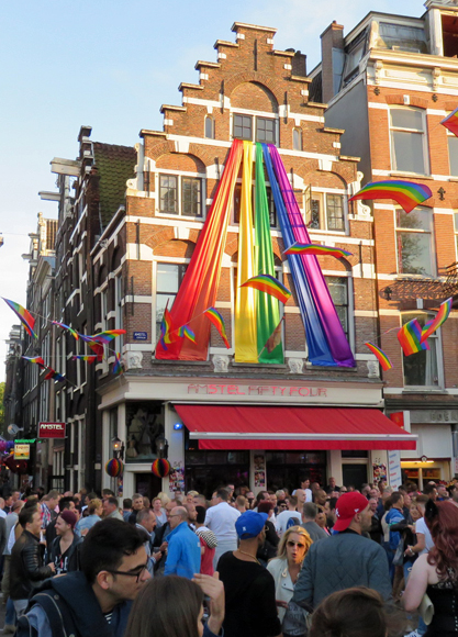 Gay bar Amstel Fifty Four, previously known as Amstel Taveerne, alongside Amstel in Amsterdam, here during Gay Pride 2015.